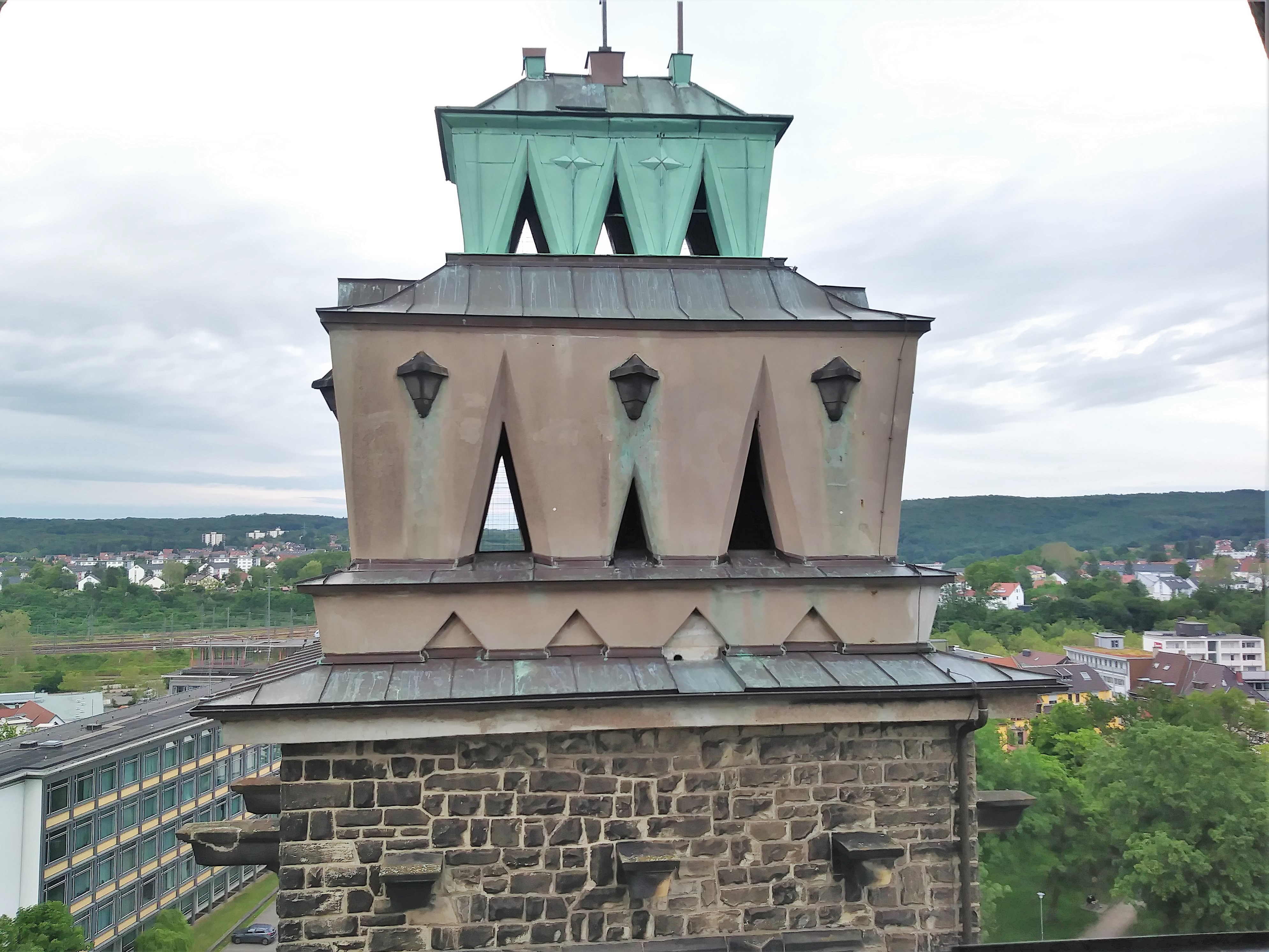 Blick aus dem Südturm des Saarbrücker Doms St. Michael